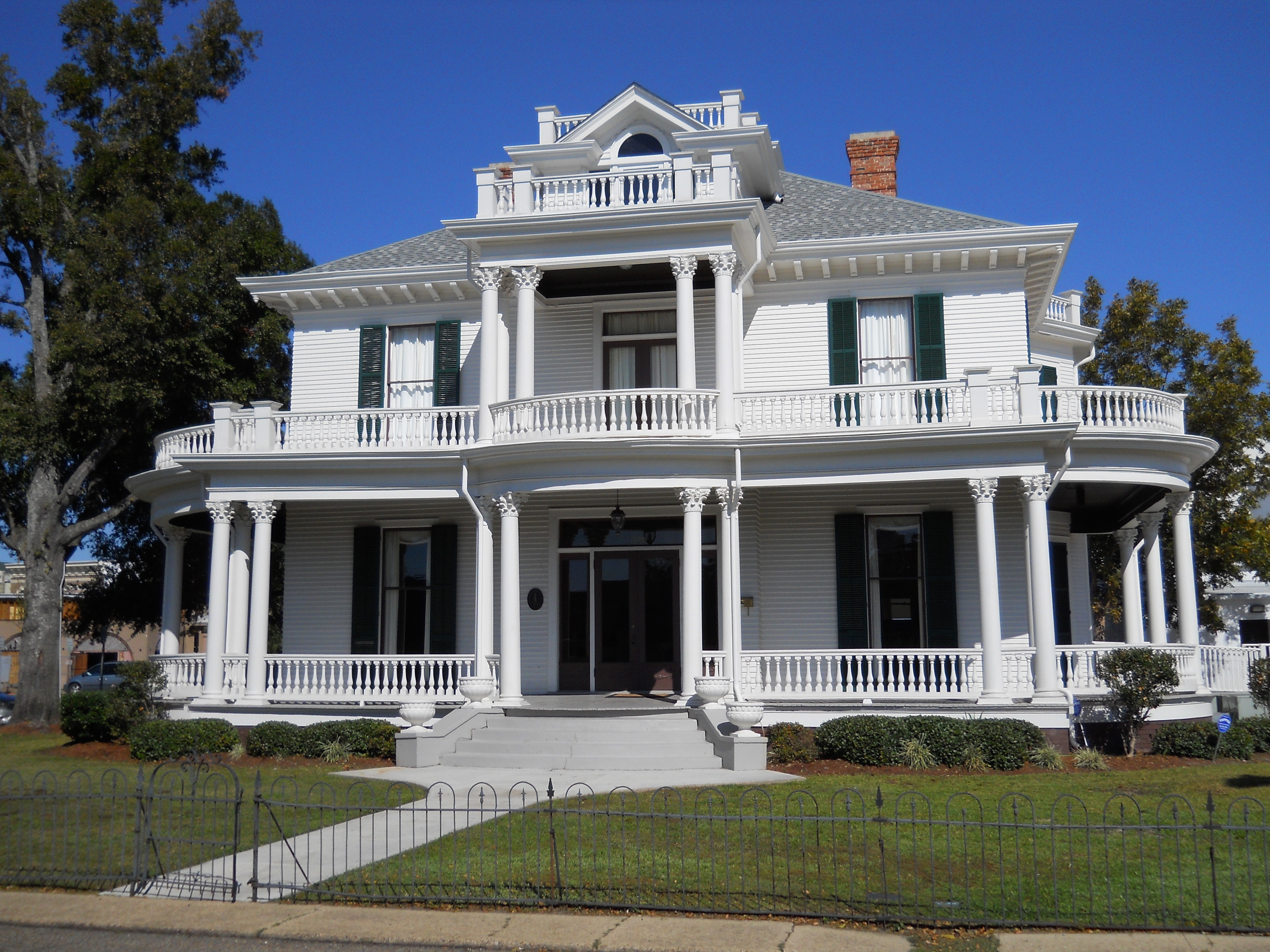 Redding House at 770 Jackson Street, Biloxi, Mississippi, USA. Listed on National Register of Historic Places 18 May 1984. Architectural Style is Colonial Revival.